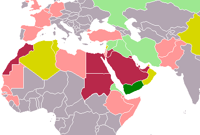 Yemen's military intervention and International reactions: Yemen and Houthis Attackers Houthi supporters Attacker supporters Neutral countries No reaction